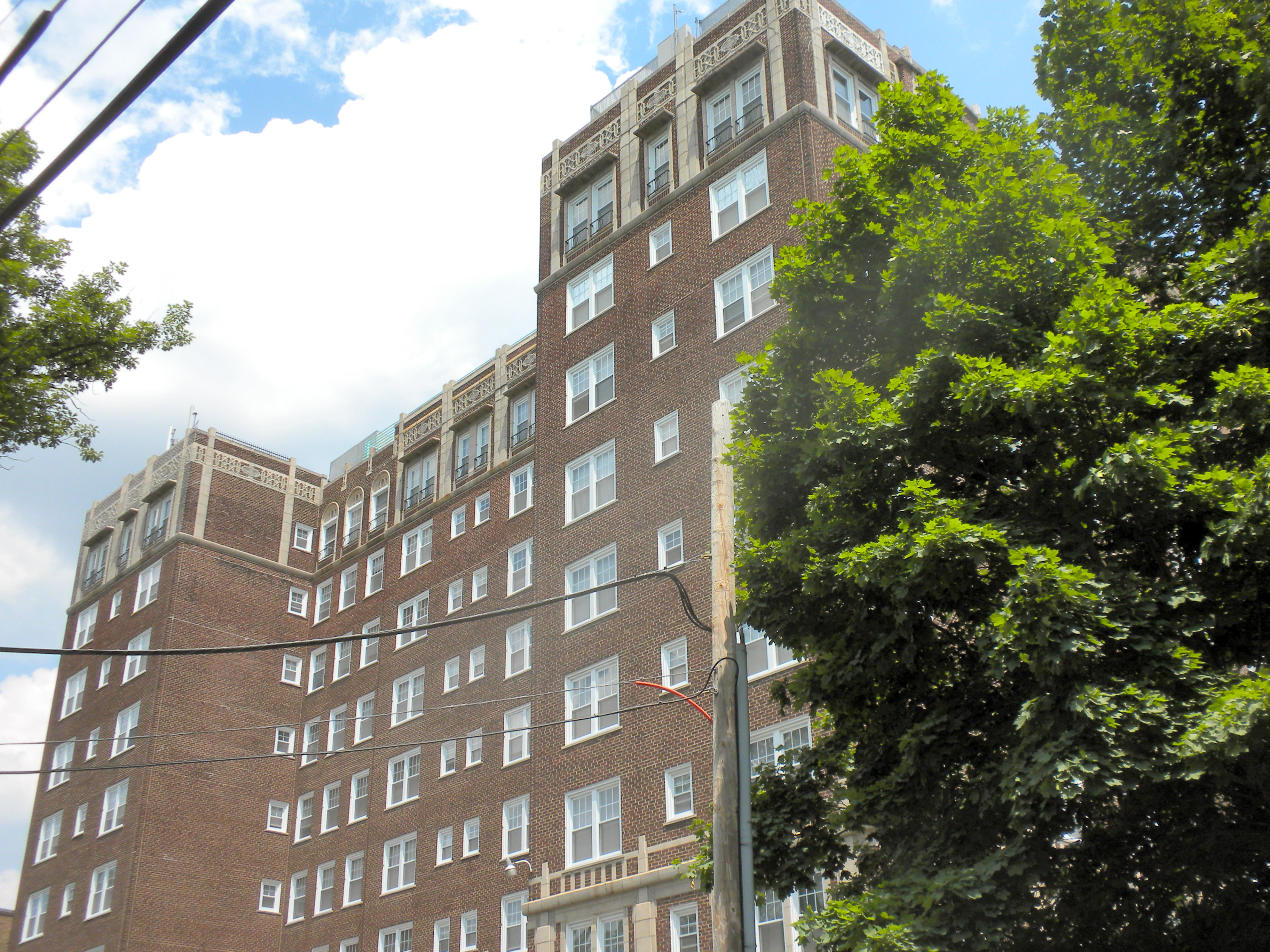 McCallum Manor on NRHP since May 9, 1985. At 6653 McCallum Avenue in Mount Airy neighborhood of Northwest Philadelphia. Right next to "Malvern Hall" apartments, also on NRHP, but McCallum Manor is much much larger.